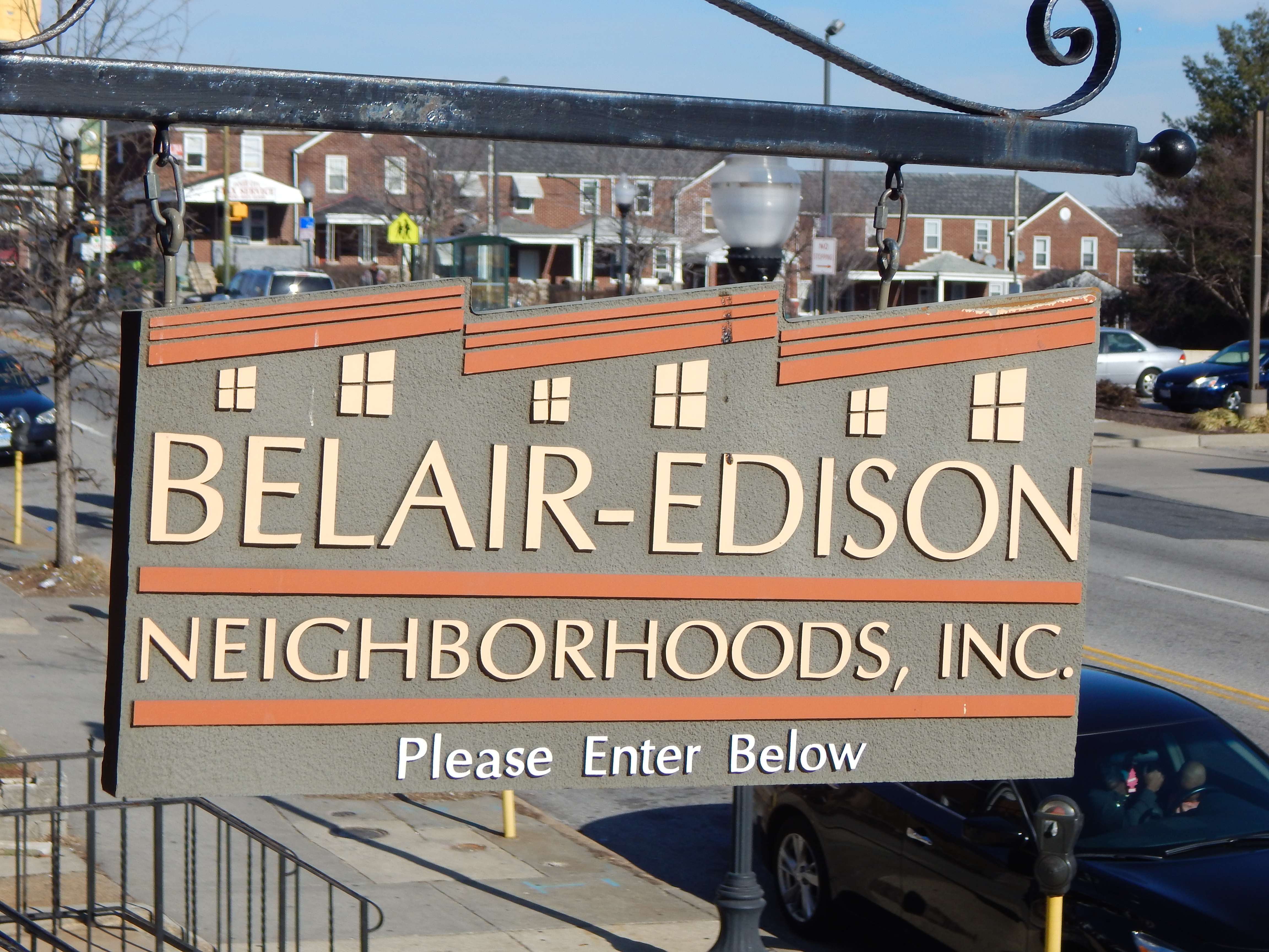 This is Belair-Edison Neighborhood, Inc's sign in the front of their office.